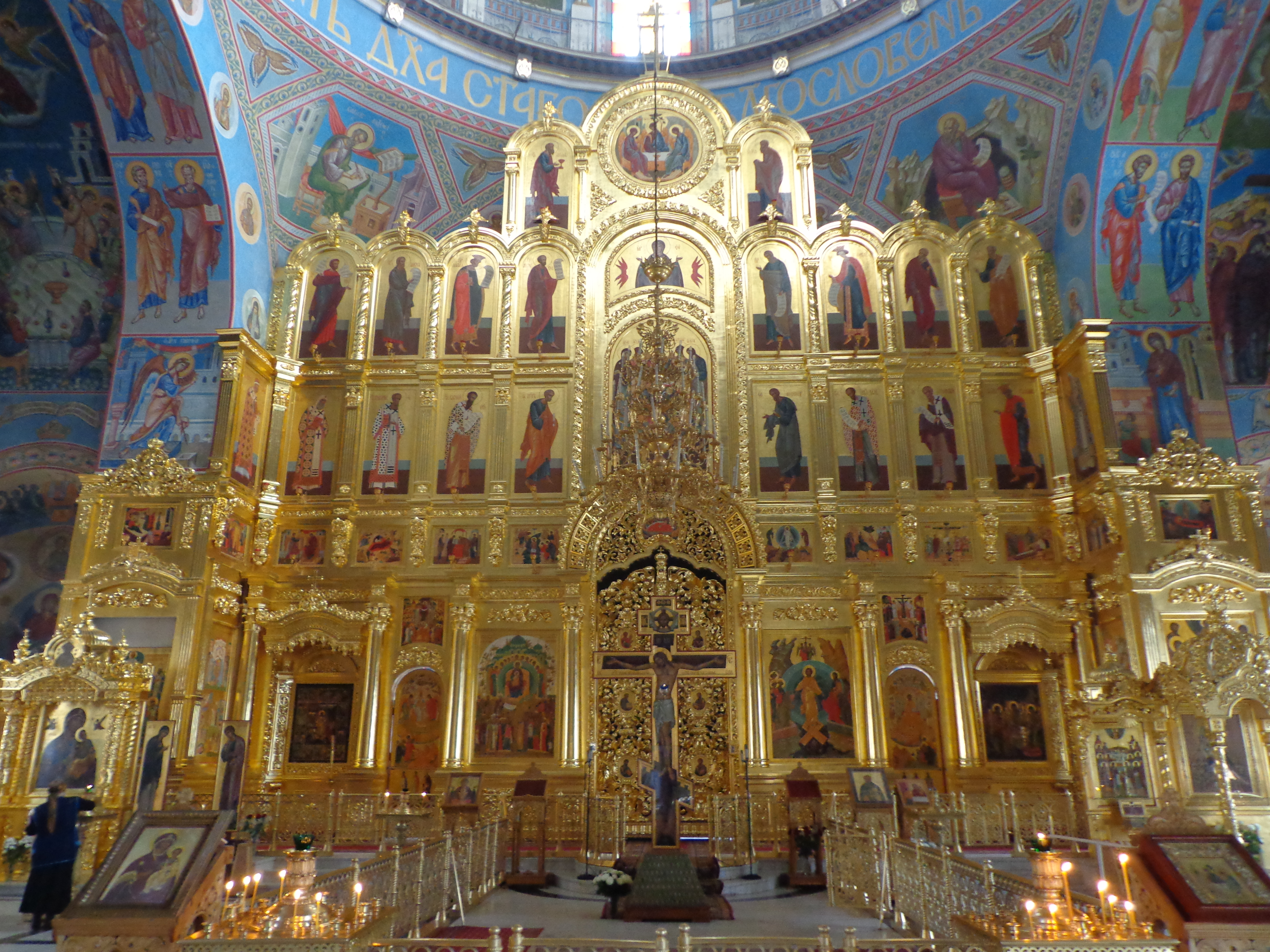 Trinity Cathedral, Kaluga